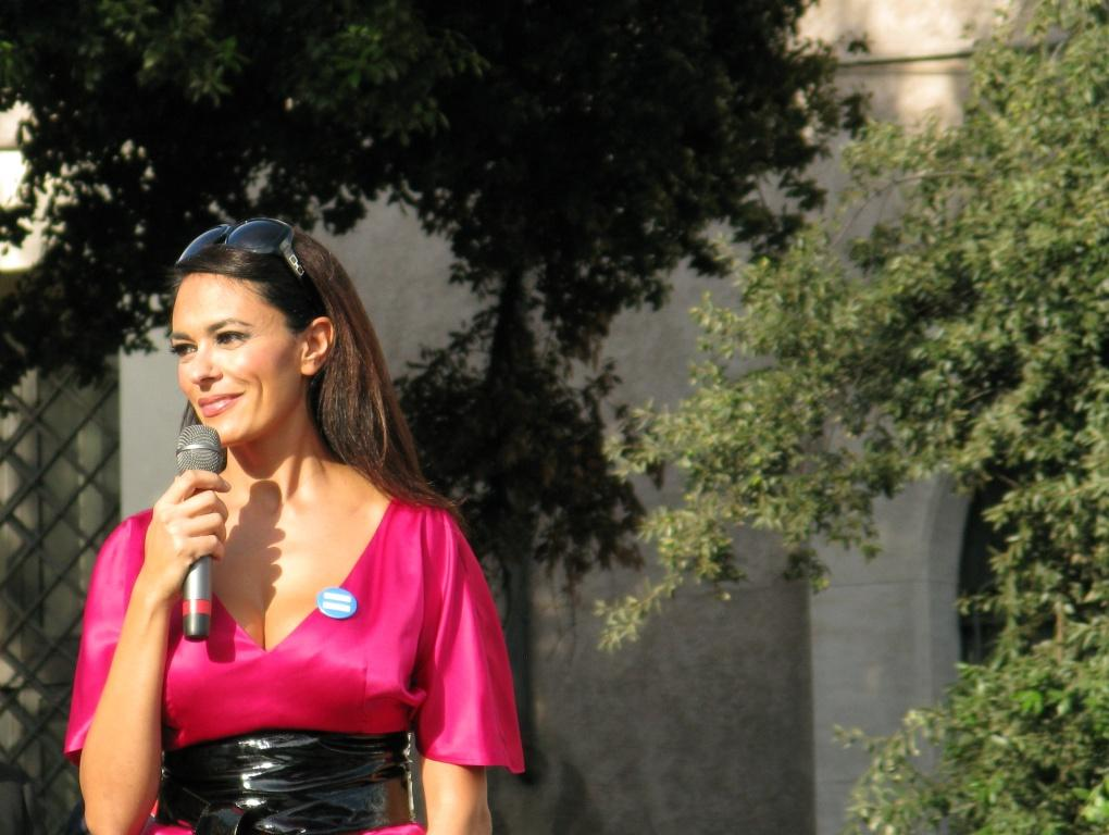 Maria Grazia Cucinotta